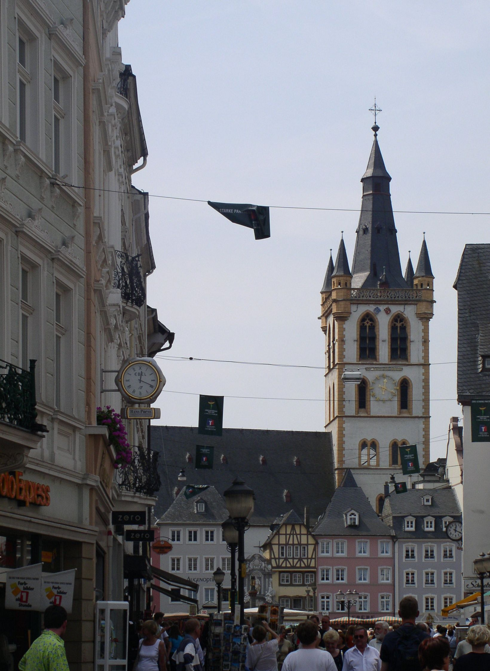 St. Gangolf church in the centre of Trier (14-15 cc.)